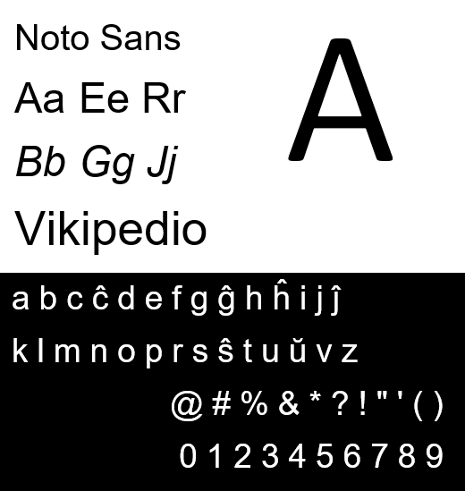 Noto fonts for language Esperanto